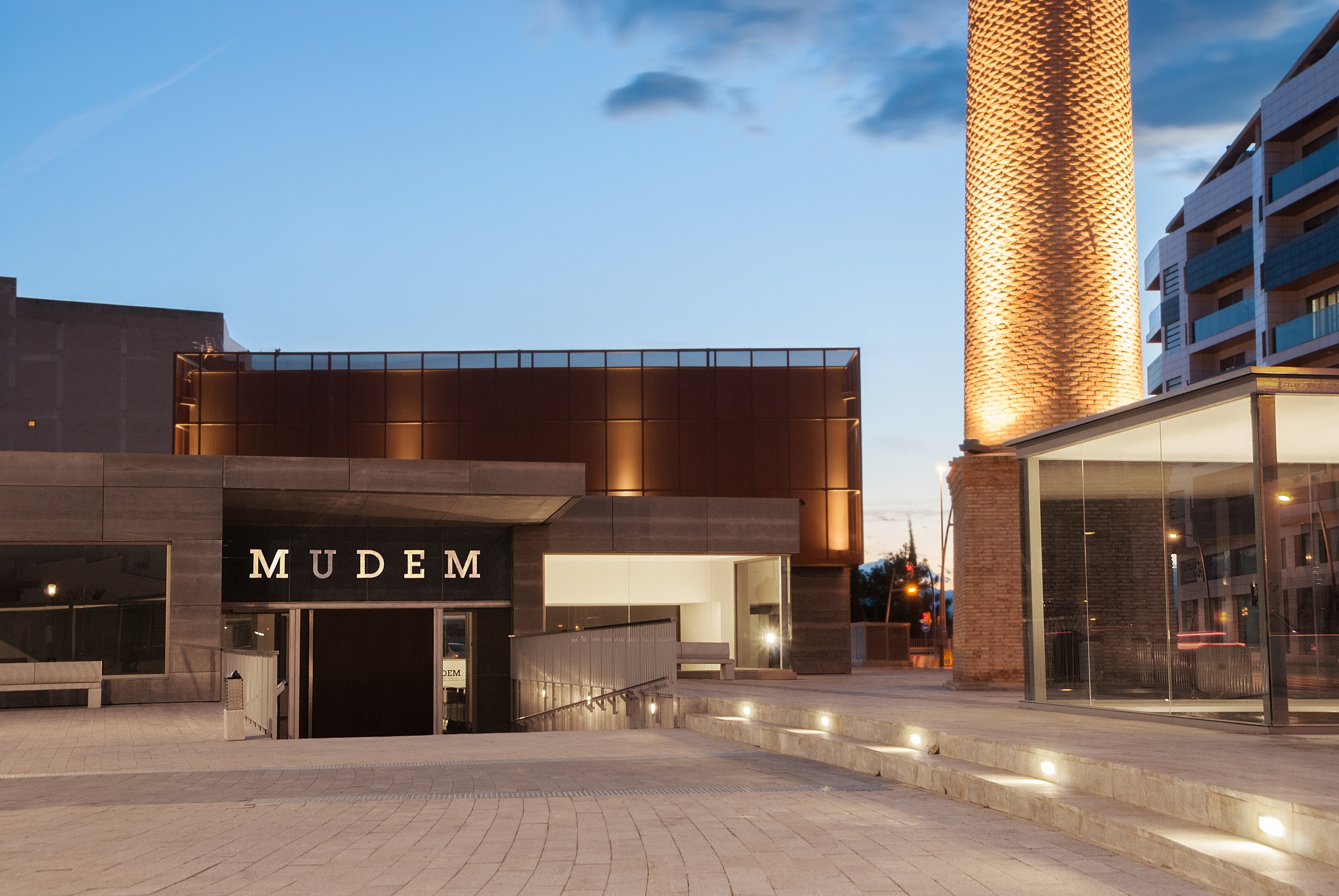 Enclave de la Muralla